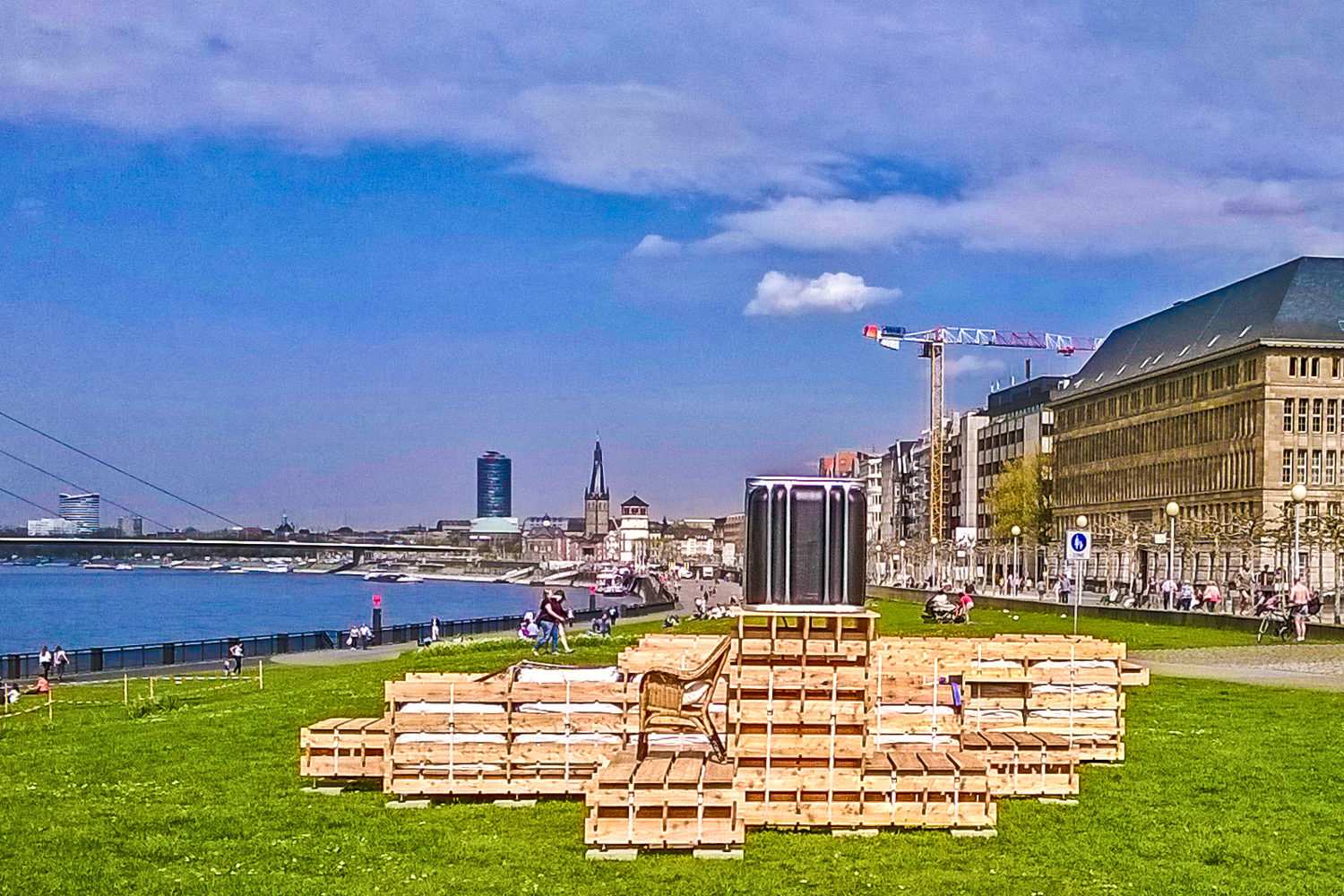 Mannesmannufer, Düsseldorf, Germany. "Elisabeths Garten" (garden of Elizabeth). Urban gardening project during "Quadriennale" festival of art. Presented by city of Düsseldorf. Concept: Stiftung Schloss und Park Benrath (foundation of Benrath castle and park). River Rhine and promenade.